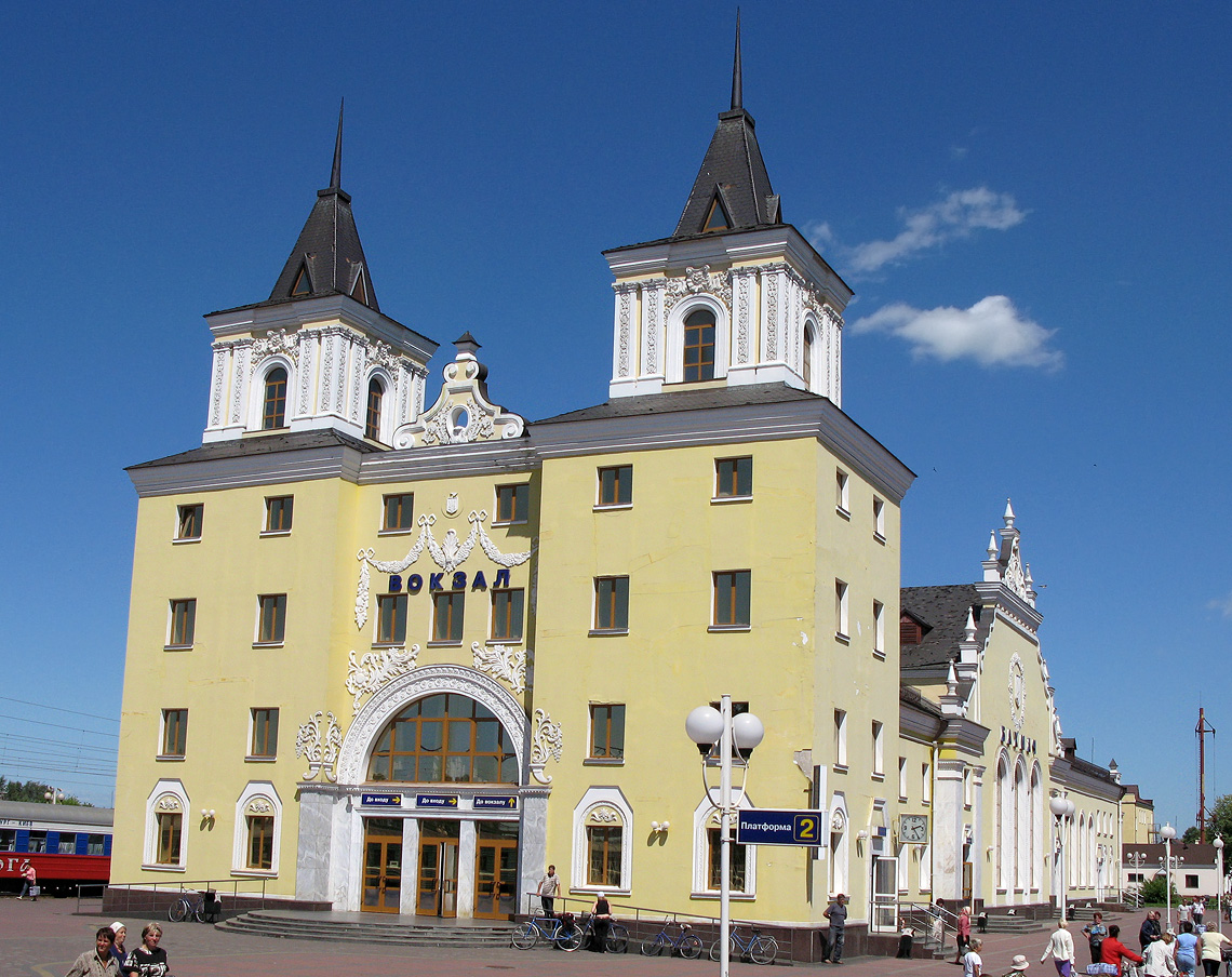 Bakhmach-Pasazhyrskyi railway station, South-Western Railway, Ukraine